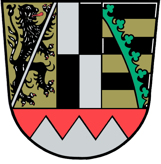 Coat of Arms of Upper Franconia